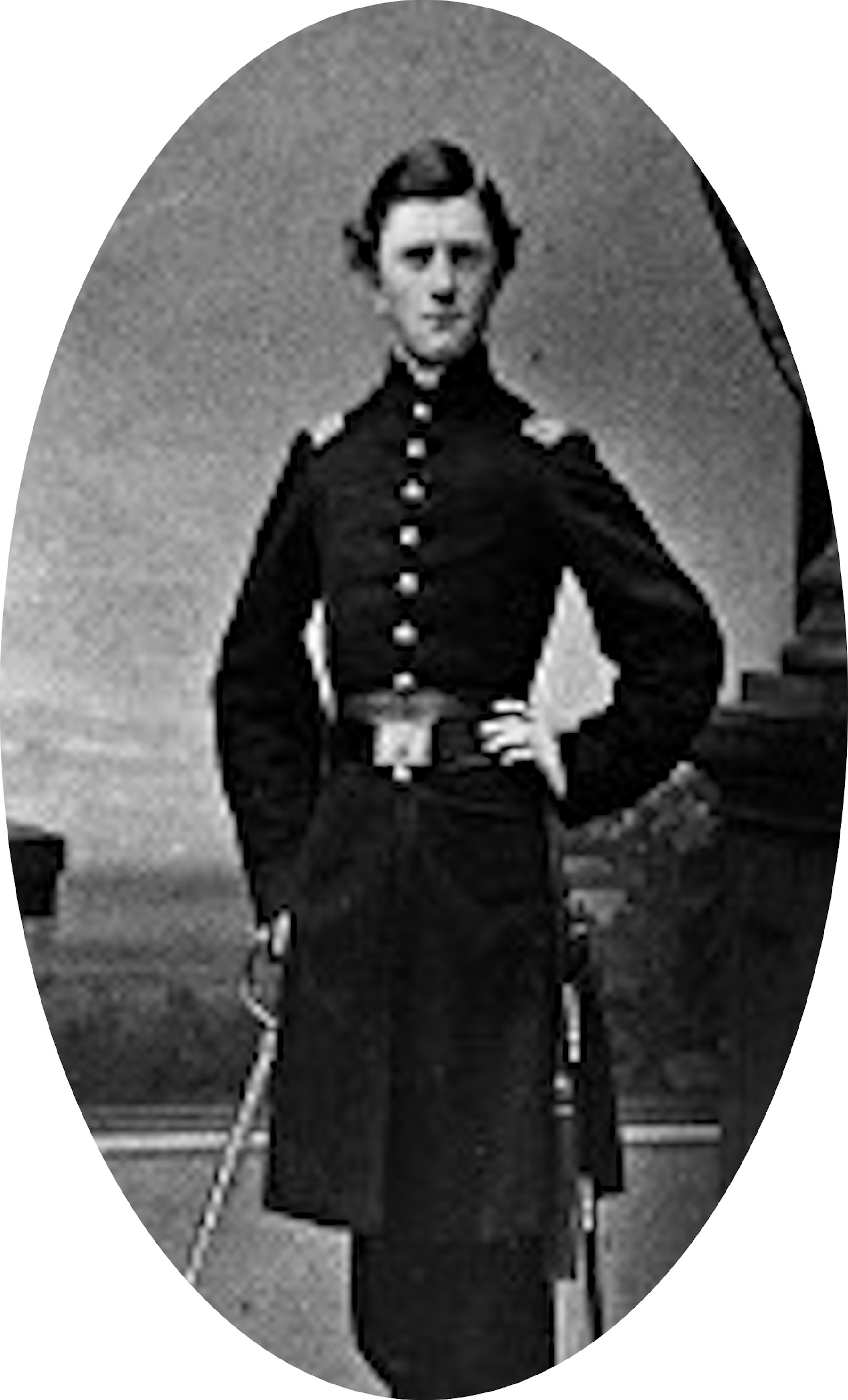 Medal of Honor winner John Henry Patterson